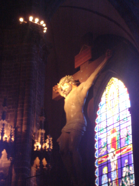 Cristo del santuario de guadalupe